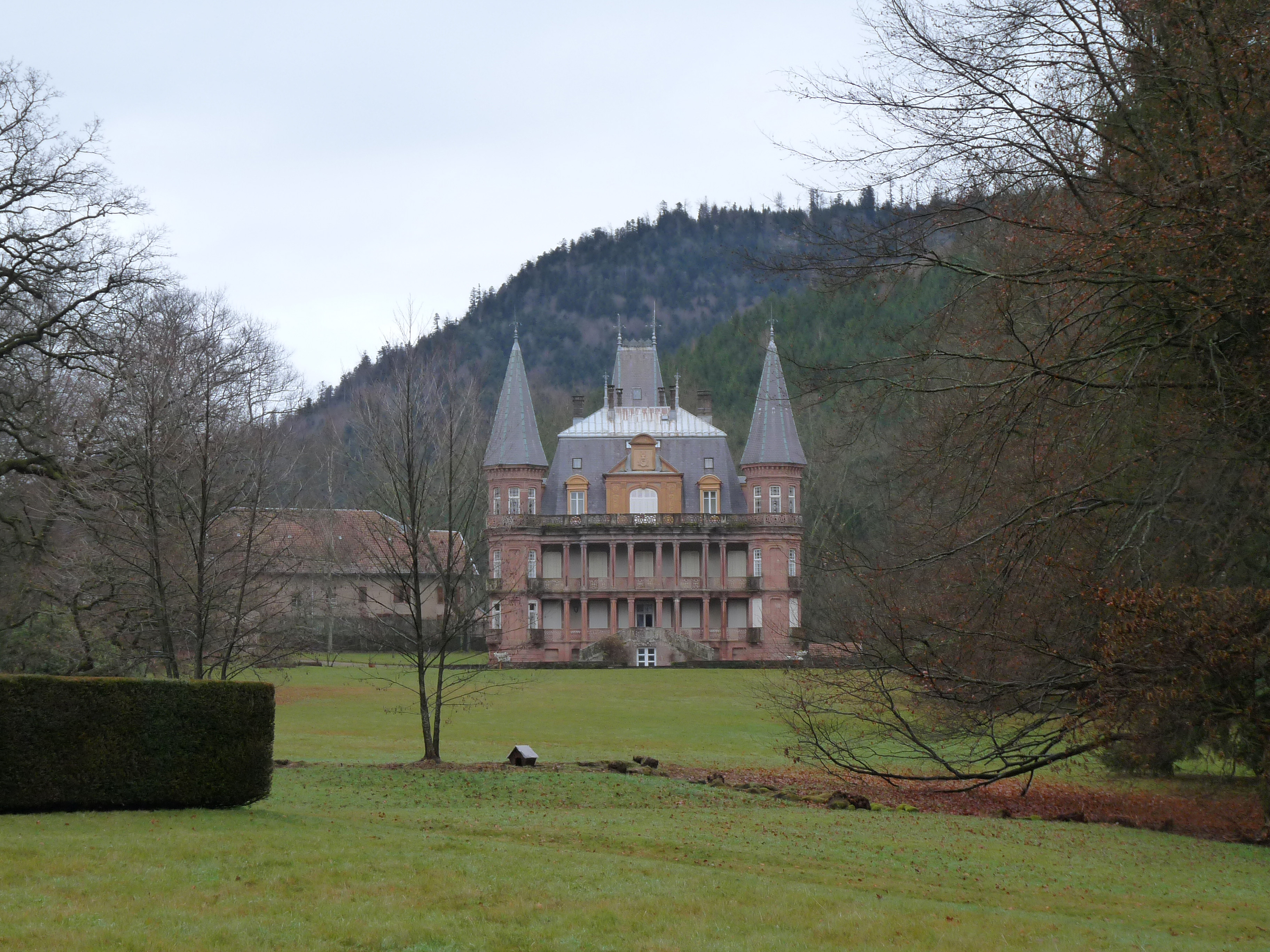 Castle of Moussey (Vosges)